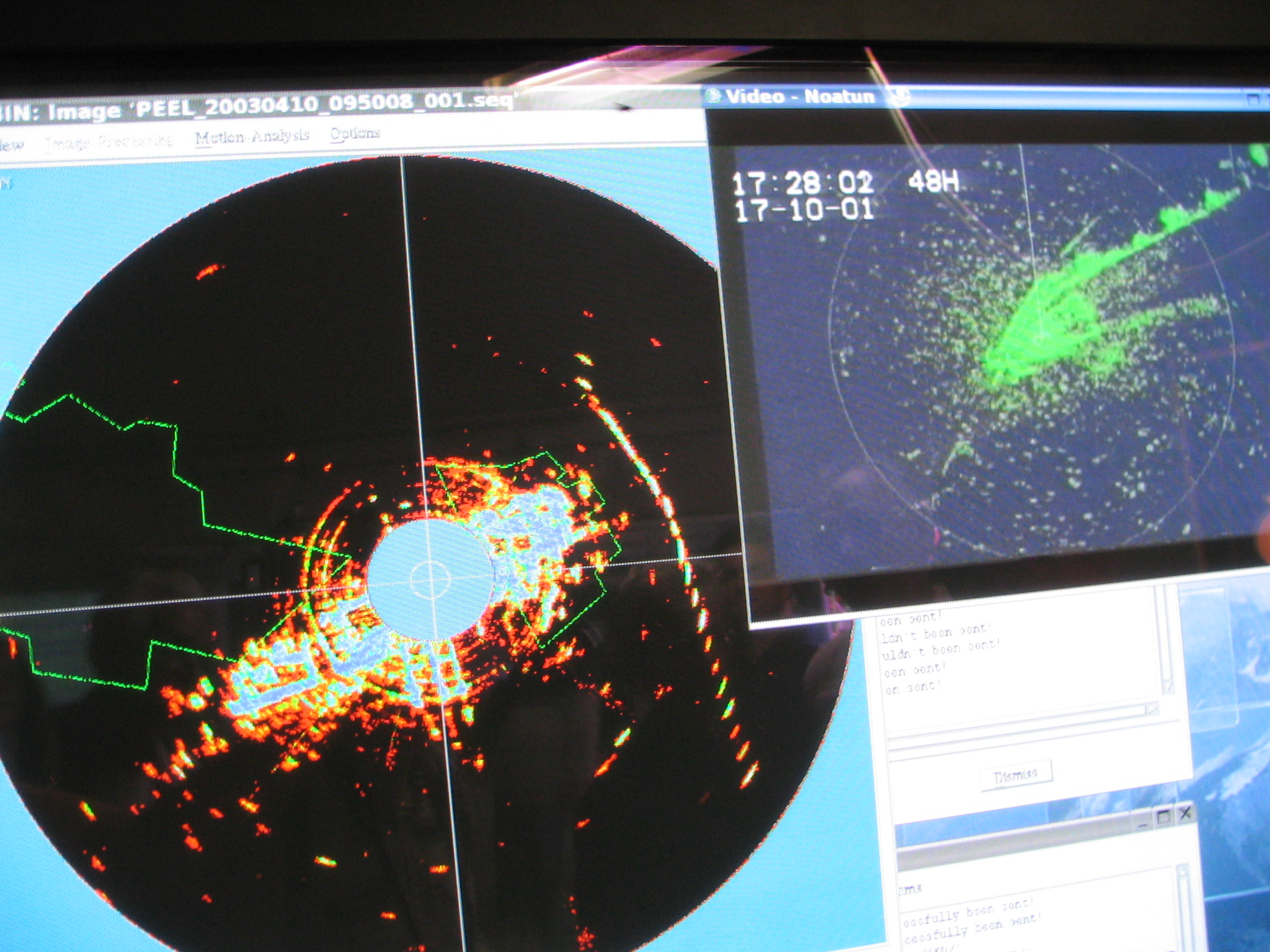 Bird festival 29-8-2004.